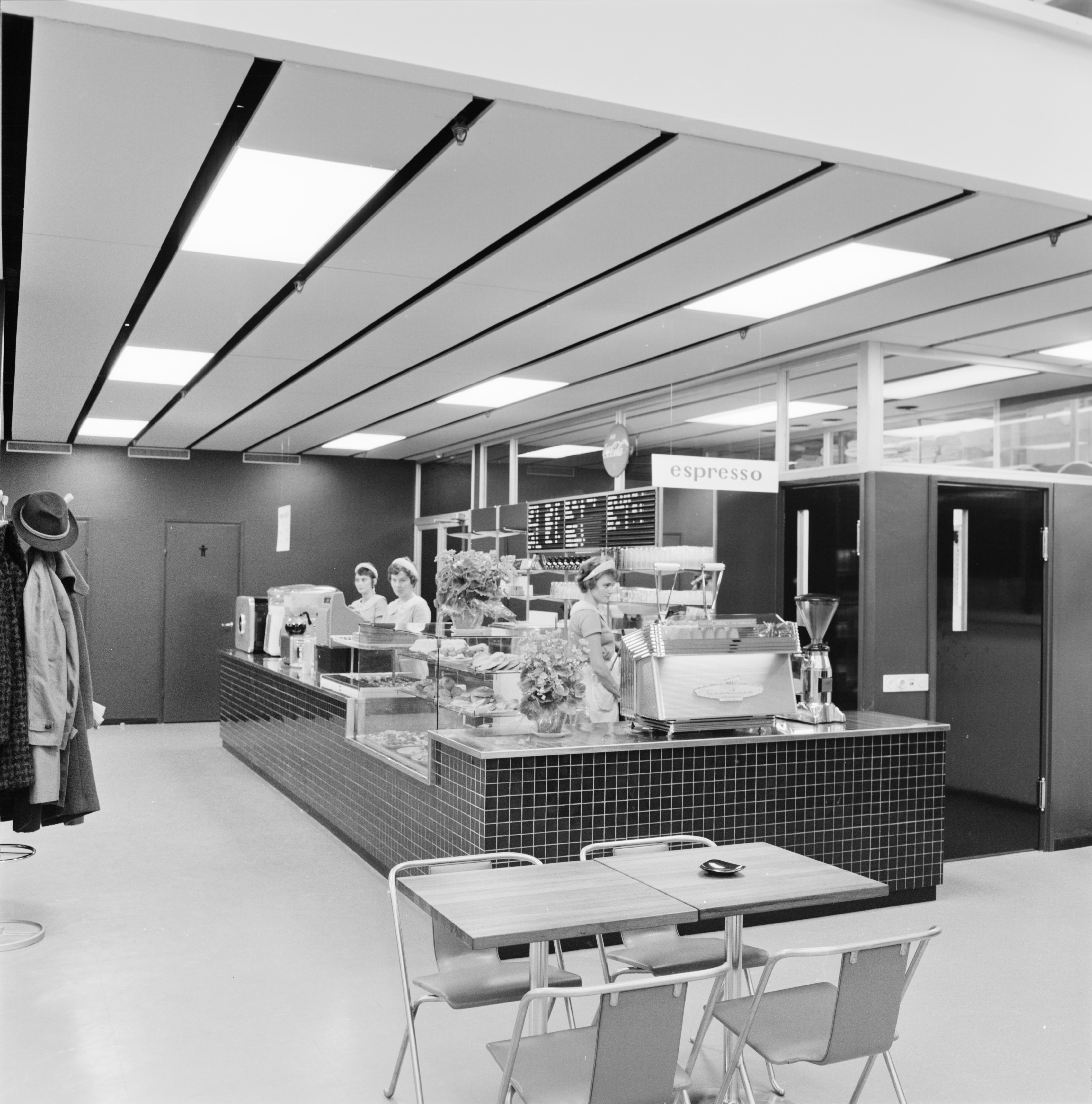 The counter of a café at the new Centrum department store of Voima cooperative. / Kahvilan tiski Osuusliike Voiman uudessa Centrum-tavaratalossa. photographer unknown / kuvaaja tuntematon 1961 Tampere, Pirkanmaa, Finland The Finnish Museum of Photography / Suomen valokuvataiteen museo